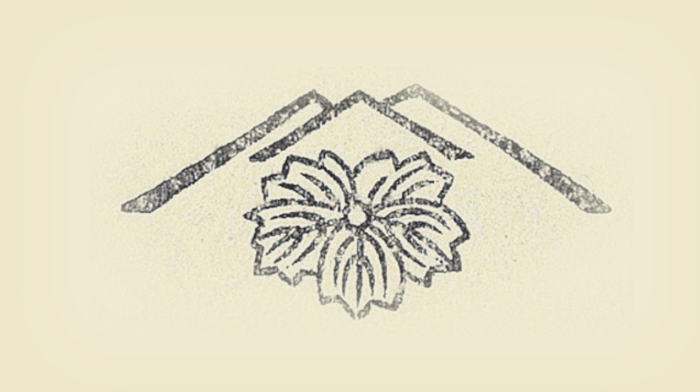 The publisher's seal for Tsutaya Jūzaburō, publisher of ukiyo-e prints at the close of the 18th century